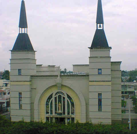 de Fotos&SectionId=28&SectionTitle=Catedral